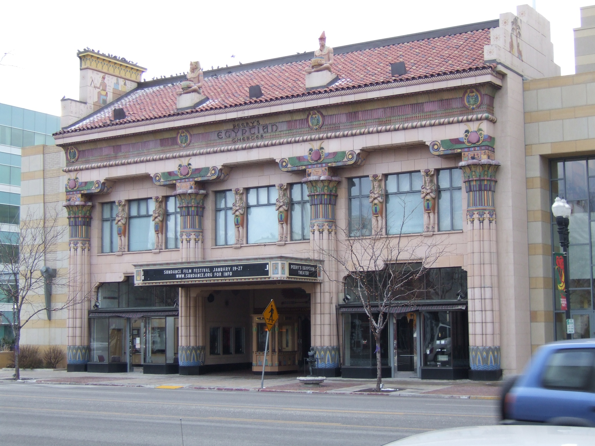 Peery's Egyptian Theatre located in Ogden, Utah